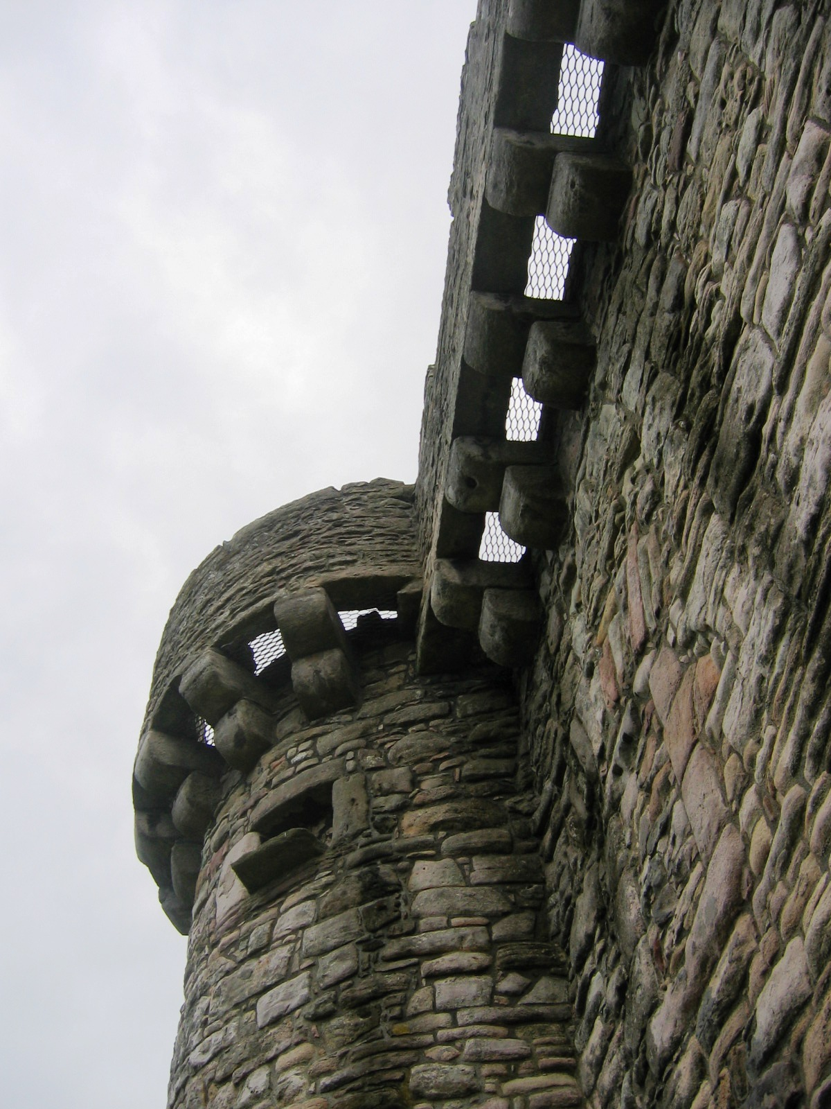 Craigmillar Castle, Edinburgh, Scotland: machicolations in the inner courtyard wall